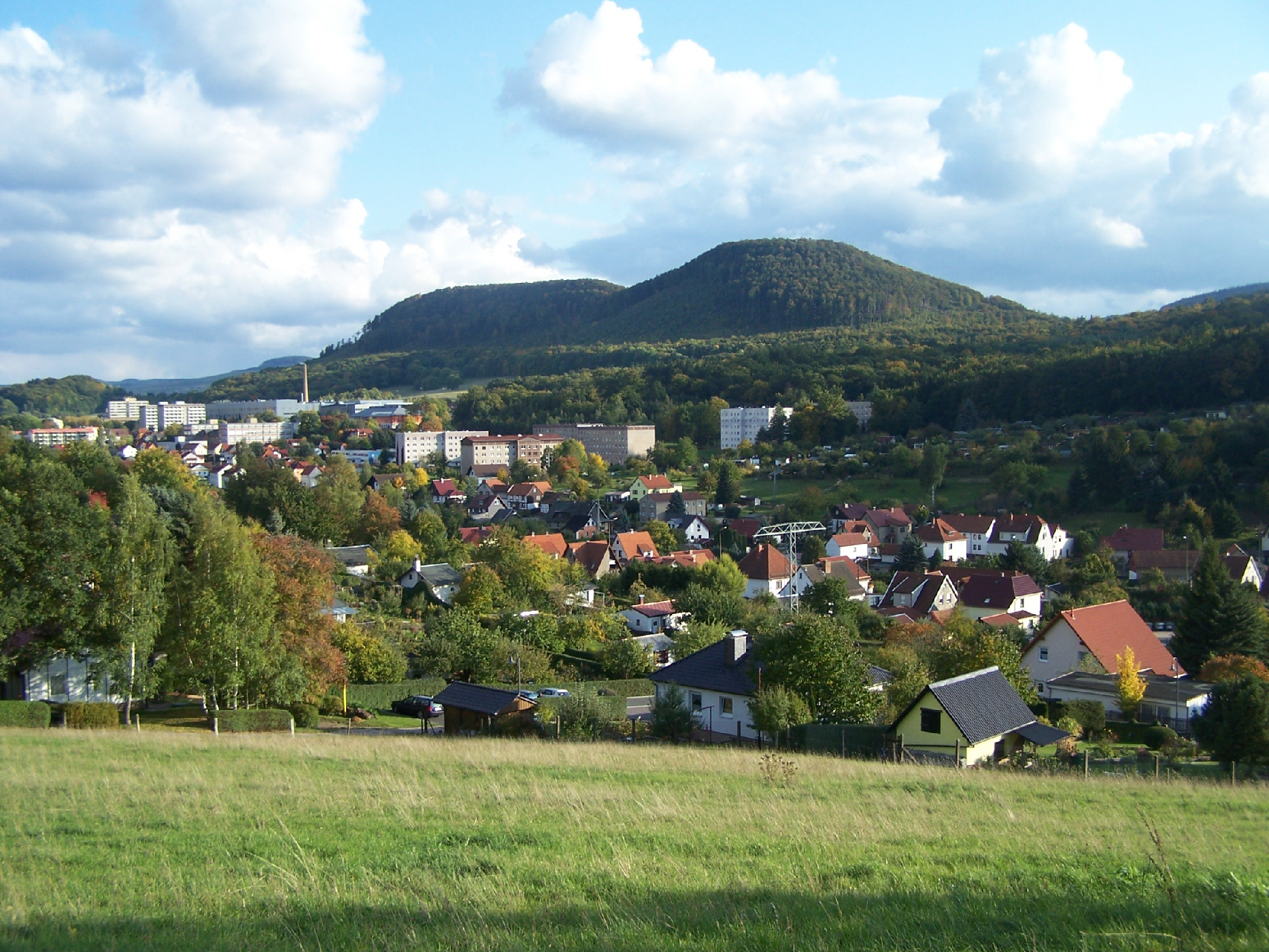 Seebach village - an overview.